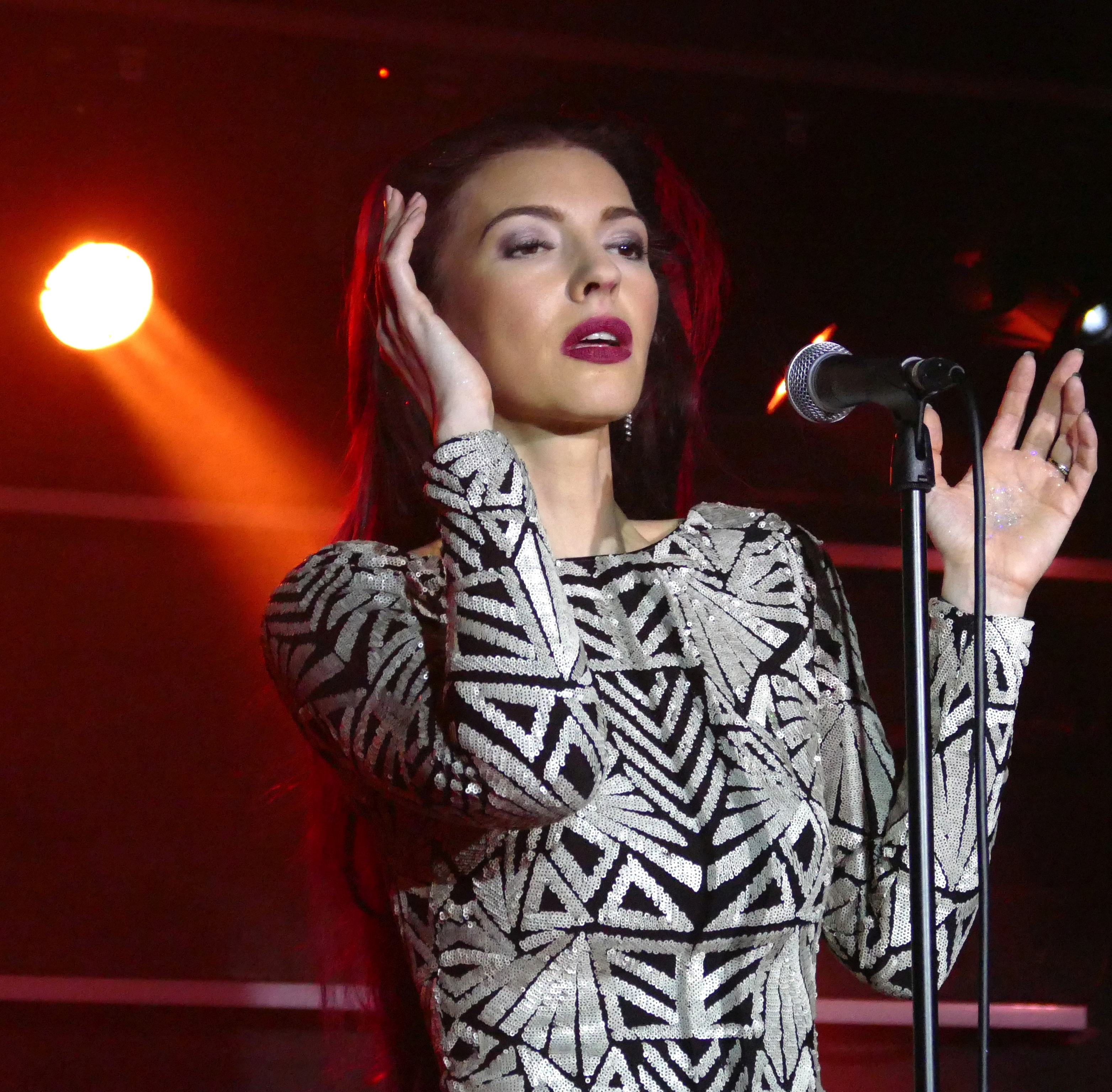 Live at the Borderline, London, June 11, 2017